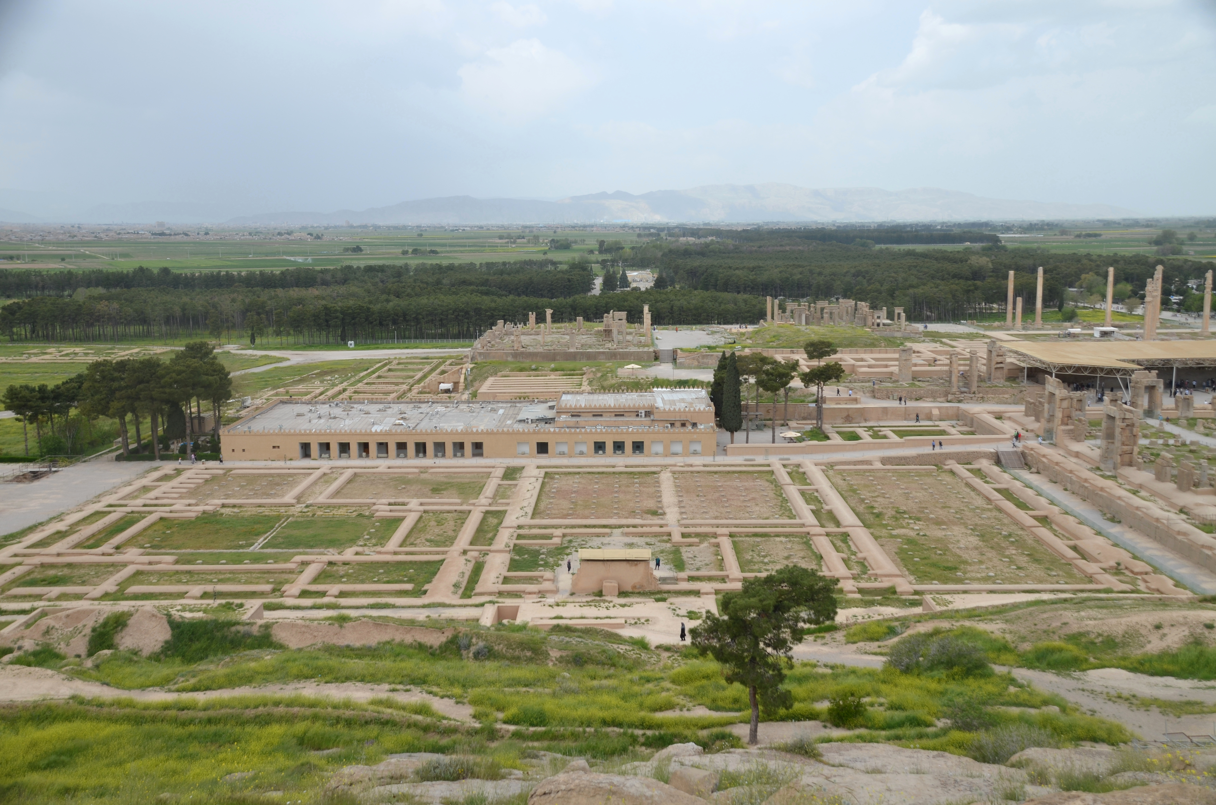 A general view of Persepolis, the ceremonial capital of the Achaemenid Persian Empire, in Persia (Persis/Fars), southwestern Iran.